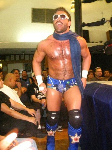 Joey Ryan in action